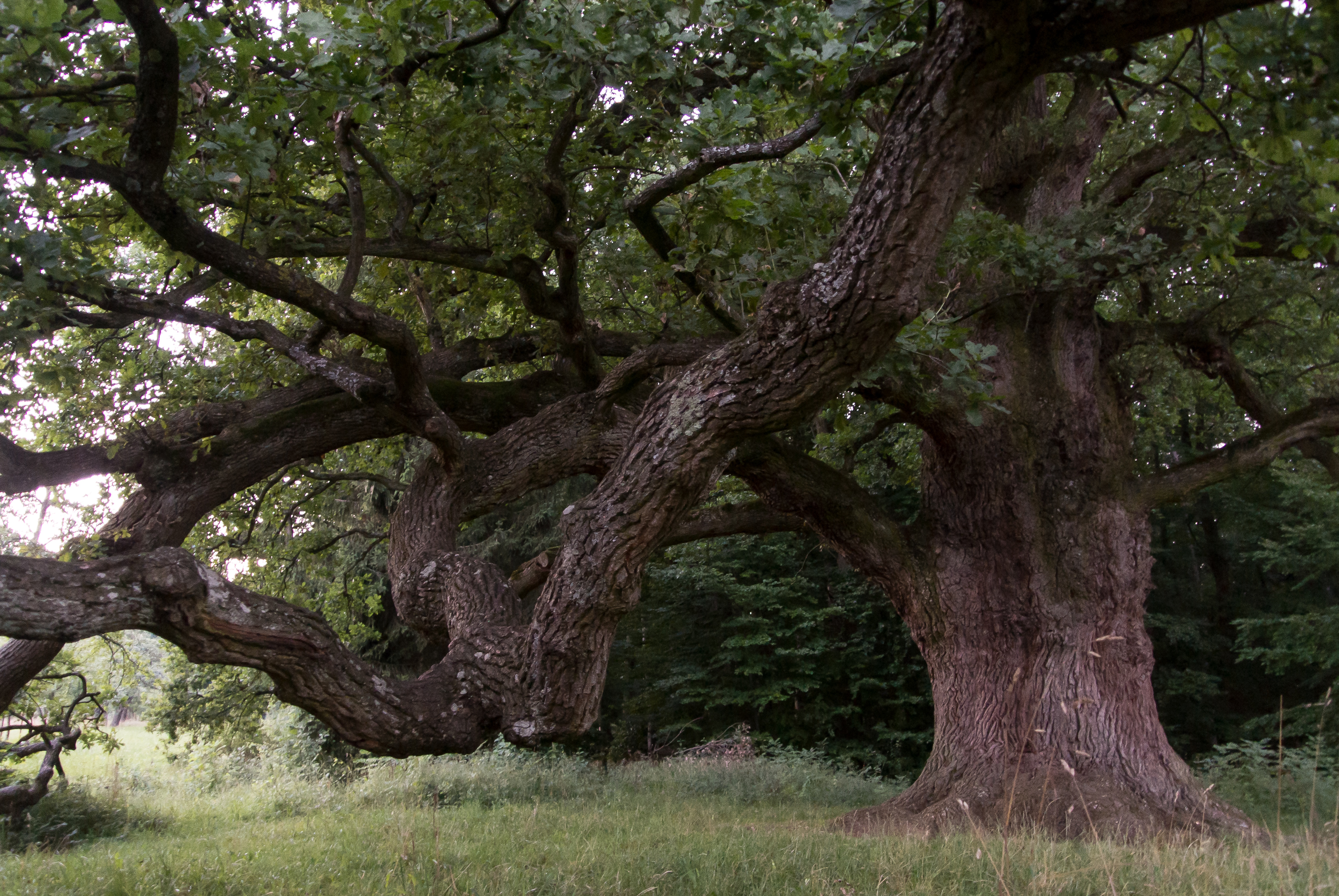 The very old Tree Sulzeiche in Germany (Region Tübingen)